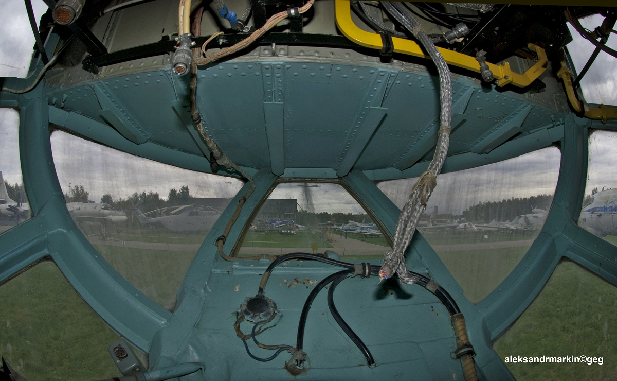 Nose.An-22.CCCP-09334